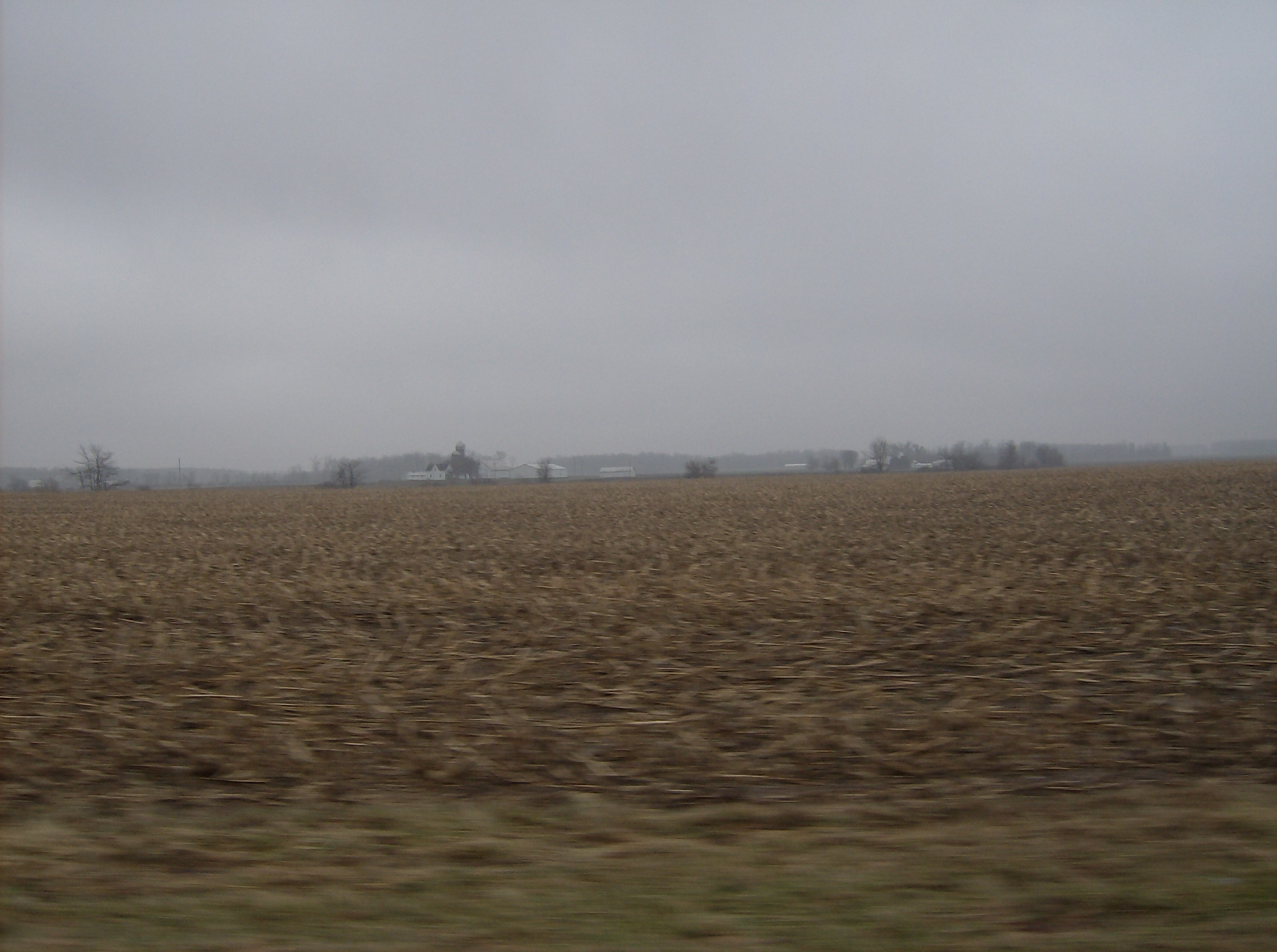 Fields in northeastern Patterson Township, Darke County, Ohio, United States. Picture taken northward from State Route 705.